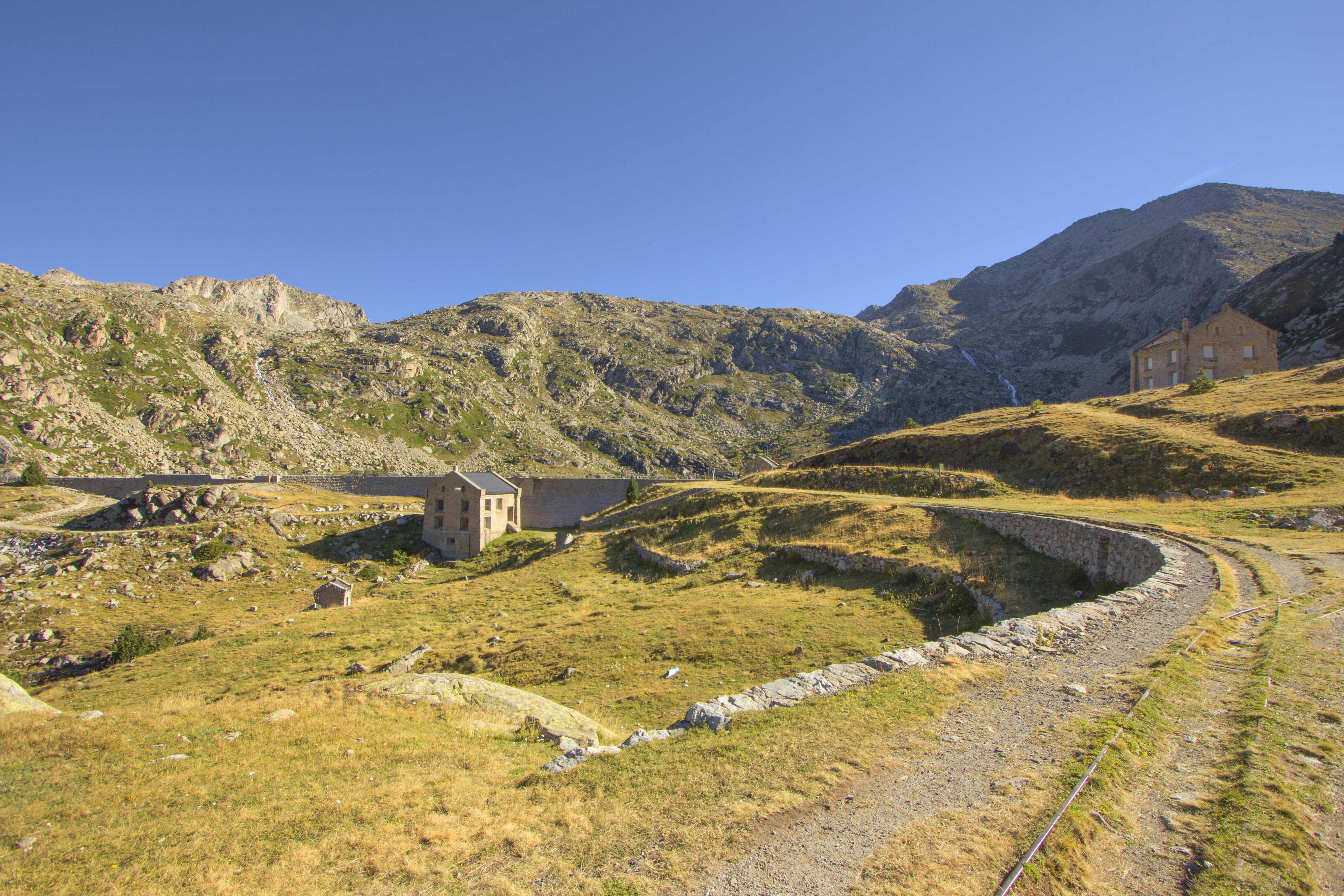 Capdella hydroelectrica power plant dam and constructions at Estany Gento (Catalan Pyrenees)